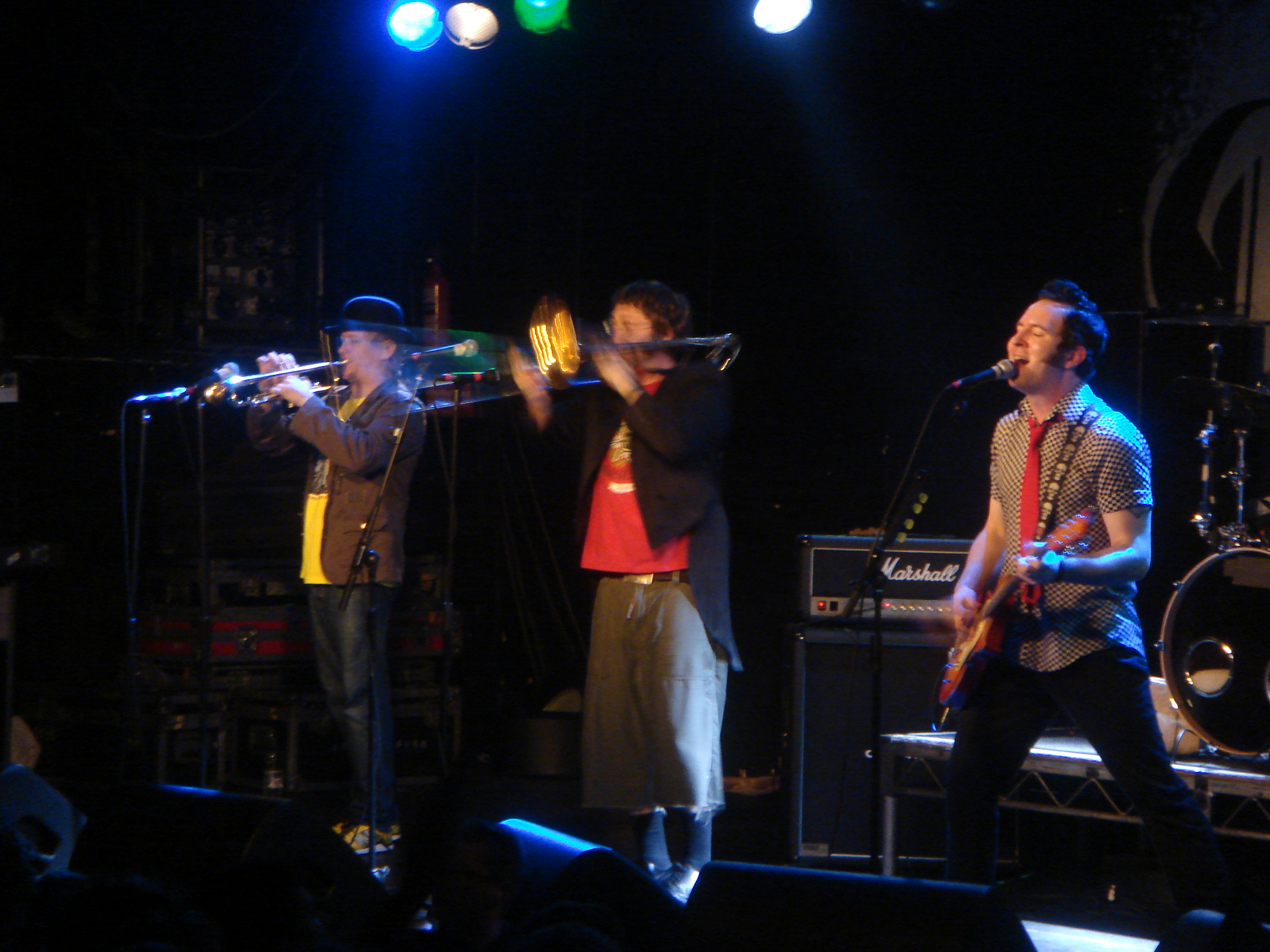 Reel Big Fish performing at Metropolitan University in Leeds, England on February 19, 2008. Members pictured are (left to right): John Christianson (trumpet), Dan Regan (trombone), and Aaron Barrett (vocals/guitar).